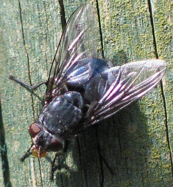 A photo of a Calliphora spec. Taken by Soebe in nothern Germany and released under GNU FDL.